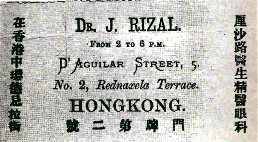 Ophthalmologist Business Card of Dr. José Rizal (Filipino National Hero 1861–1896) from Hong Kong End of 19 Century 中文（香港）: 19末世紀厘沙路(菲律賓國父黎剎 1861–1896)醫生在香港當眼科醫生時的名片